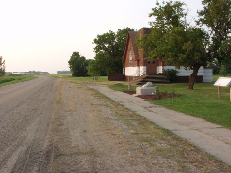 Bowesmont, North Dakota. From . United Methodist Church